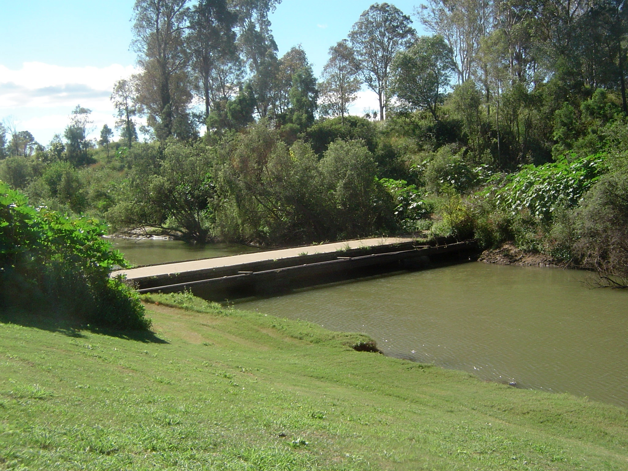 Photo of an old bridge over the Logan River at Jimboomba Lions Park, Jimboomba, Logan City, Queensland, Australia.